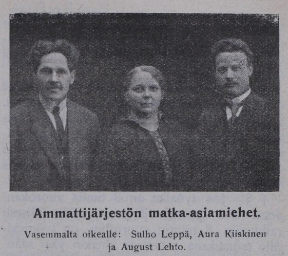 Delegates of the Finnish Trade Union Federation Sulho Leppä, Aura Kiiskinen and August Lehto in 1917. Leppä and Kiiskinen were also Members of the Parliament.